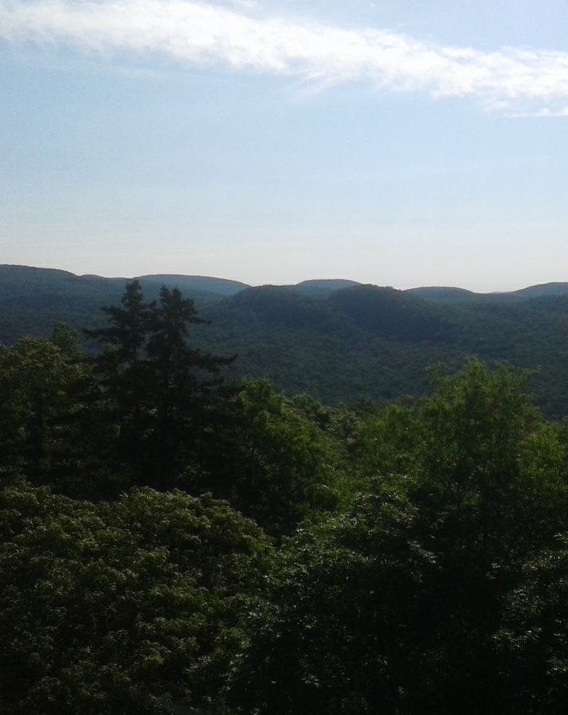 View of Camelhump from Kane Mountain Fire Observation Station on top of Kane Mountain. Taken June 2019.